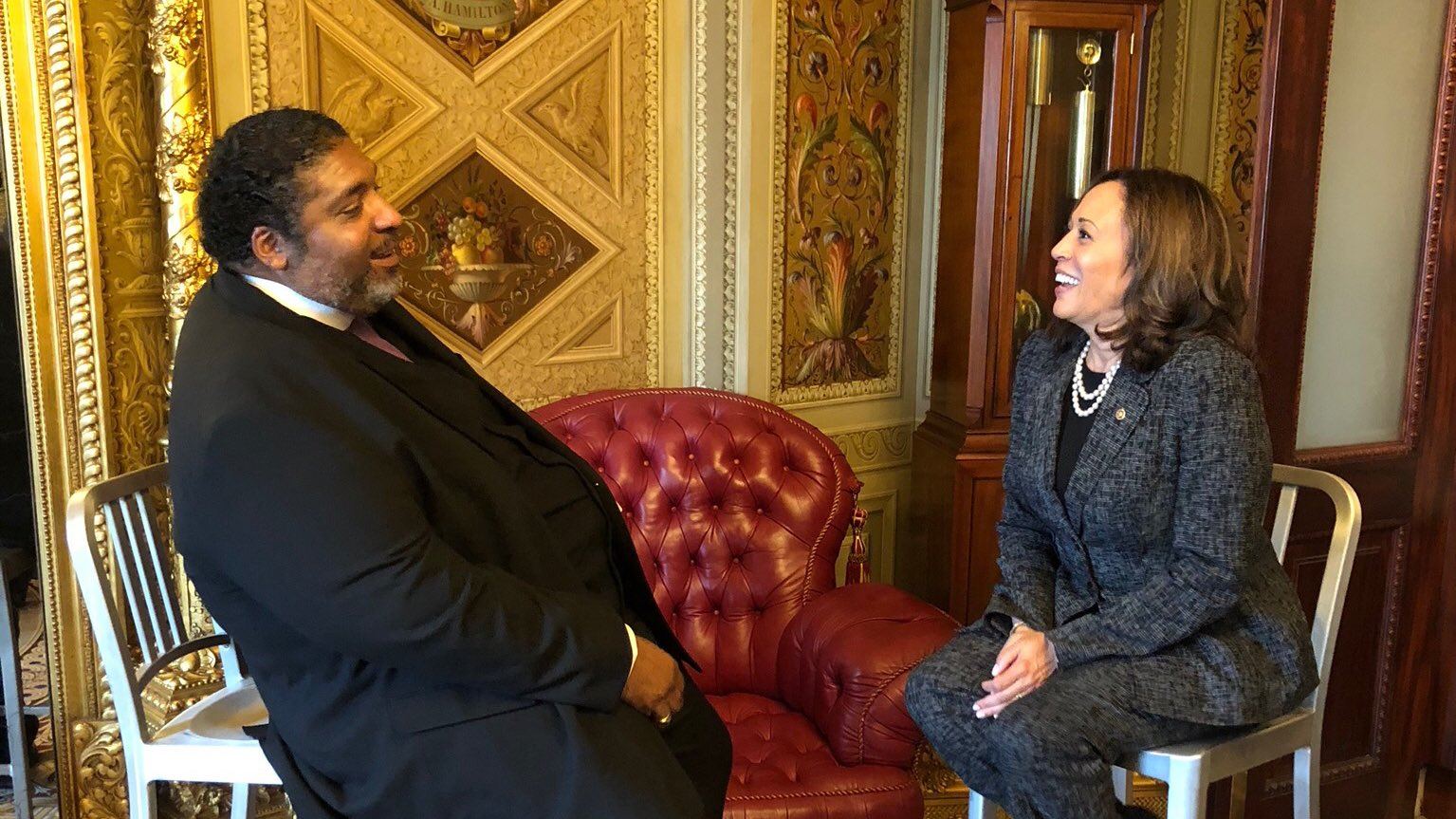 .@RevDrBarber continues to be one of the great moral leaders of our time – grateful to speak with him today about the fight ahead.